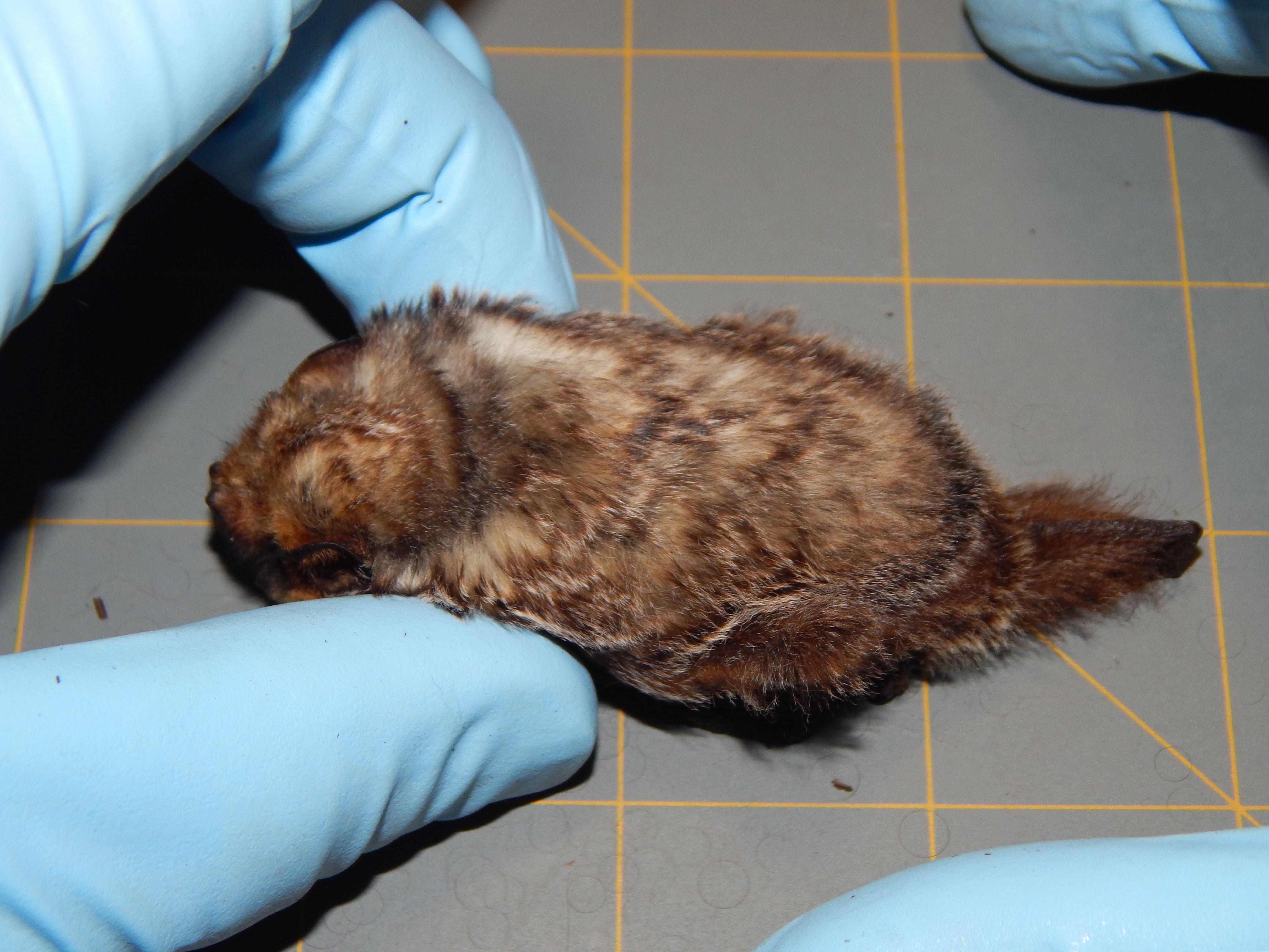 Eucalyptus sp. (Eucalyptus) Habitat with Hawaiian Hoary bat monitoring at Hawea Pl Olinda, Maui, Hawaii. June 25, 2014 #140625-0808 Image Use Policy